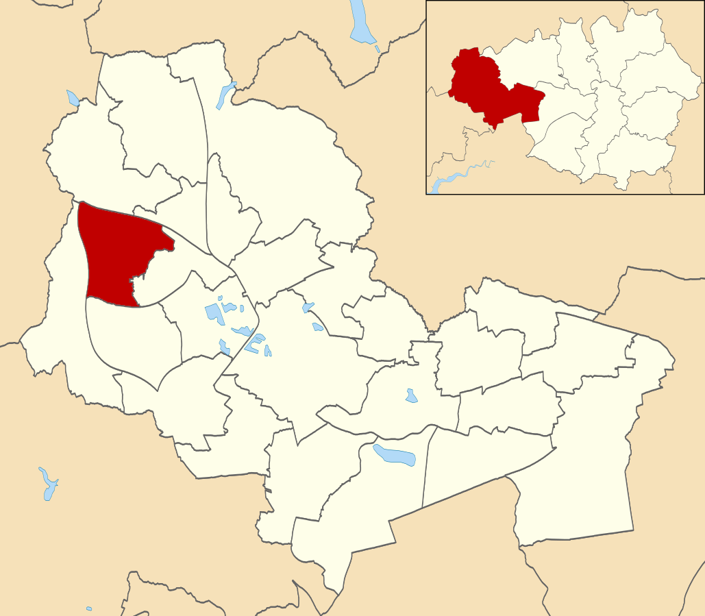 Map showing the location of Winstanley ward within Wigan Metropolitan Borough Council